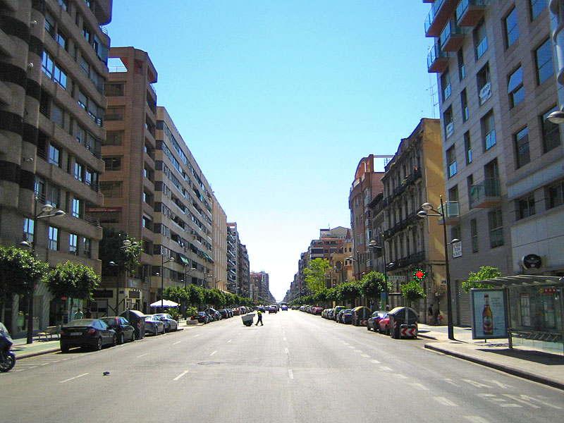 Avinugda del Port (Port avenue) in Valencia, Spain